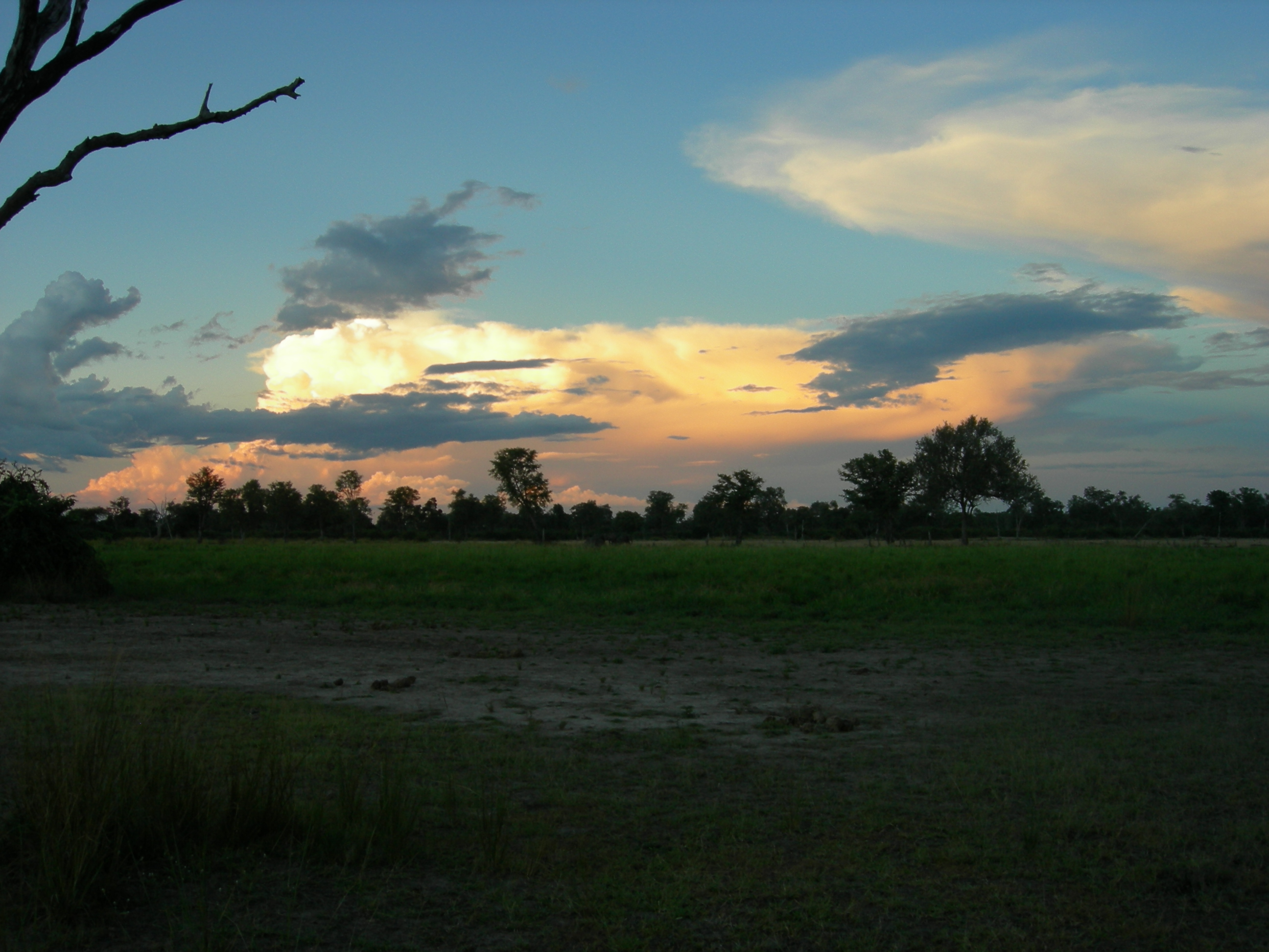 South Luangwa National Park, Zambia